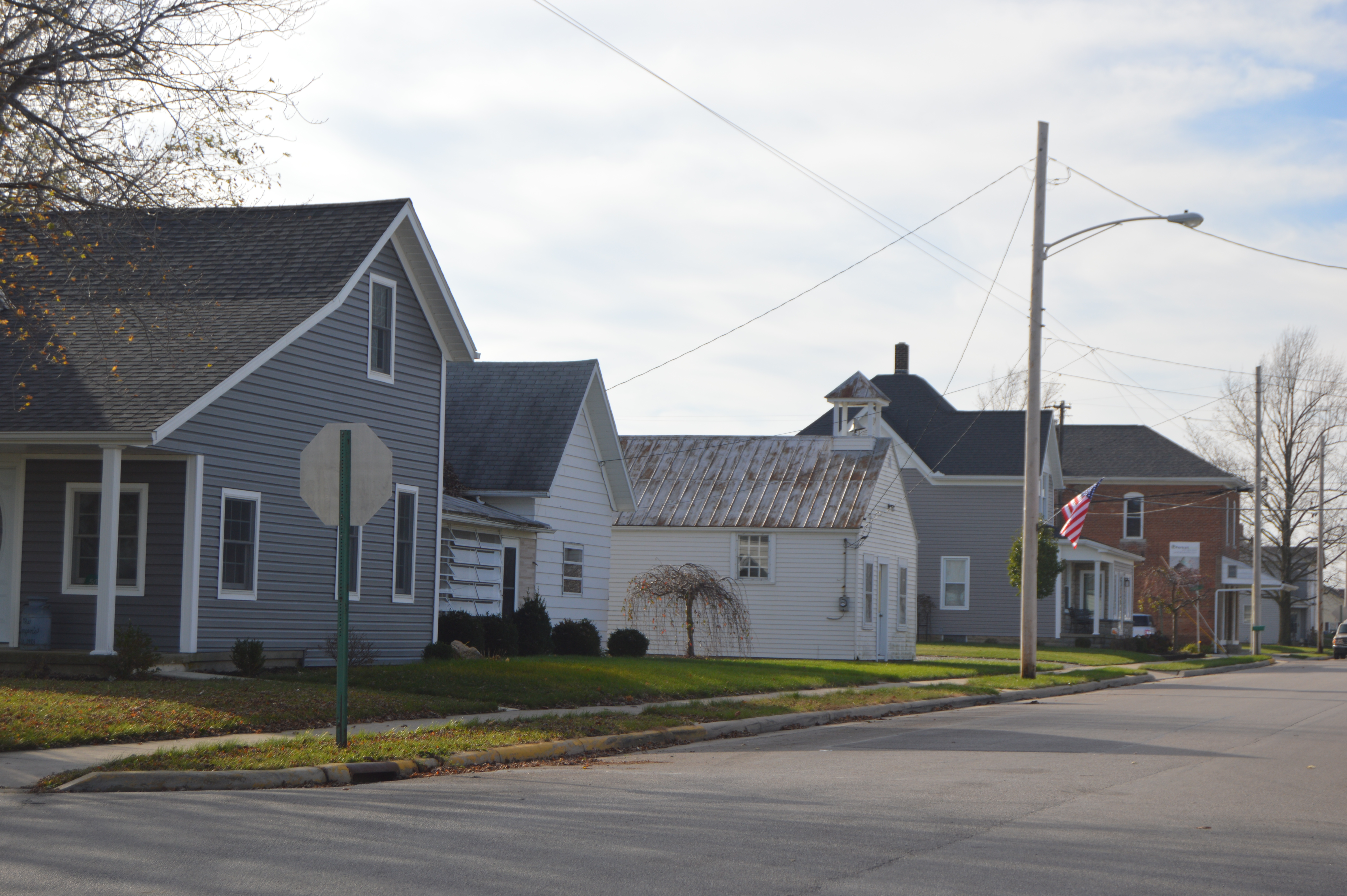 Looking westward on North Star Fort Loramie Road from Yorkshire Osgood Road in Yorkshire, Ohio, United States.